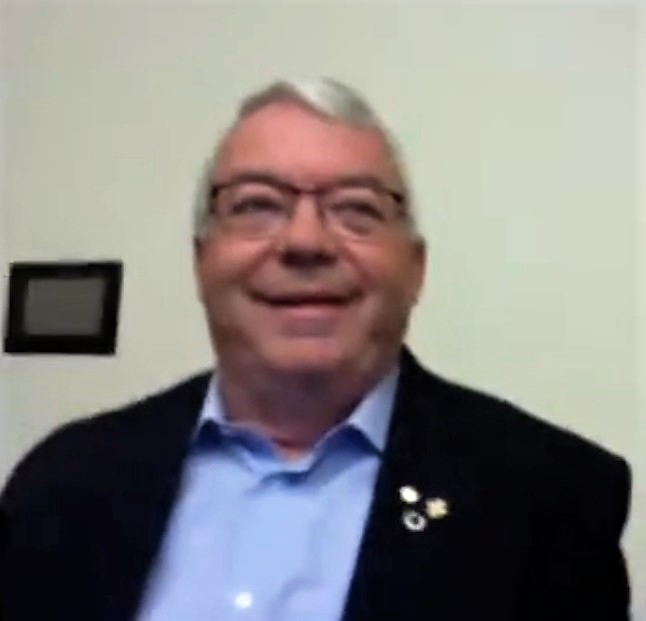 Inaugural Steadward Talks Launching the Steadward Talks: Past, Present, Future at the Intersection of the Olympic and Paralympic Movements. Hosted by Eli Wolff, Disability in Sport International and David Legg, International Federation Adapted Physical Activity Dr. Robert Steadward, the International Paralympic Committee’s (IPC) first and founding President from 1989-2001 will engage a conversation and share insights, ideas and perspectives on the evolution of the relationship between the Paralympic Movement and the Olympic Movement. The Steadward Talks are an ongoing series of online conversations addressing the past, present and future at the intersection of the Olympic and Paralympic Movements.